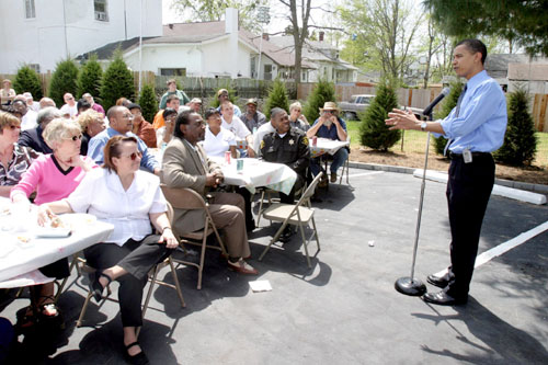 Senator Obama speaks to supporters at a luncheon in Cairo, IL on Thursday, April 15. Senator Obama and Senator Durbin spent 3 days campaigning downstate on a tour of 22 cities and towns. (David Katz/Obama for Illinois)